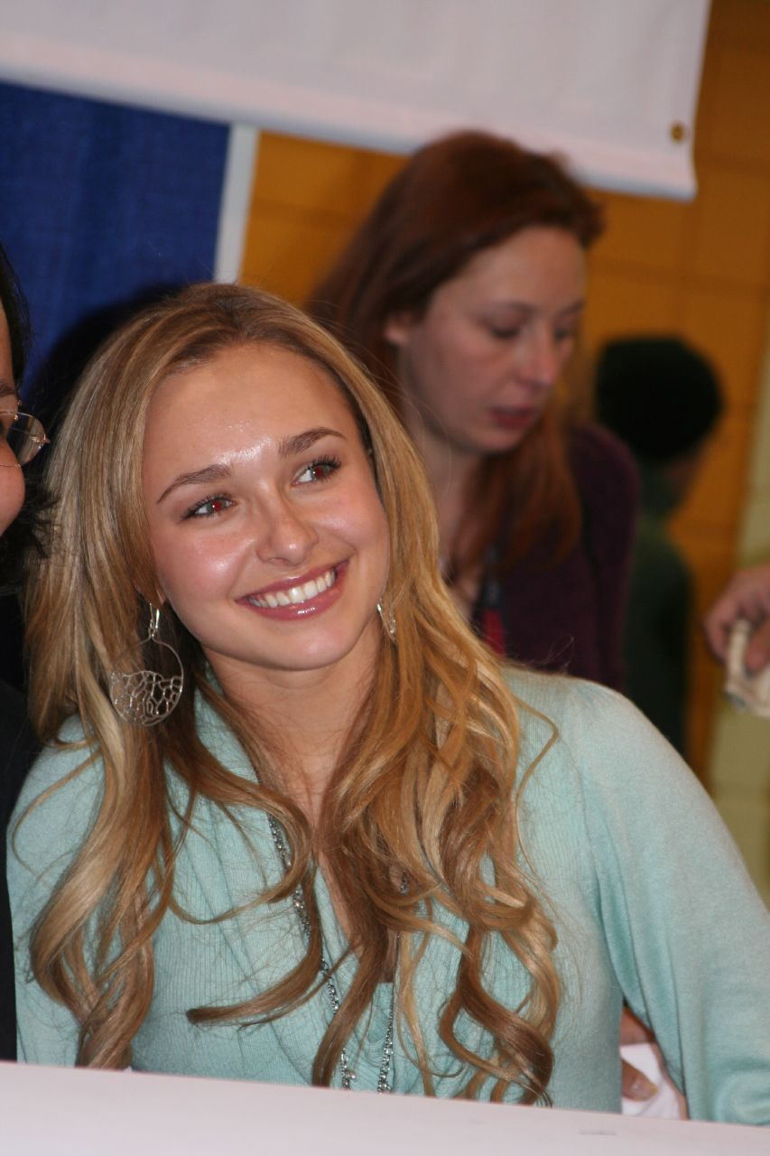 Hayden Panettiere on the New York Comic Con 2007.